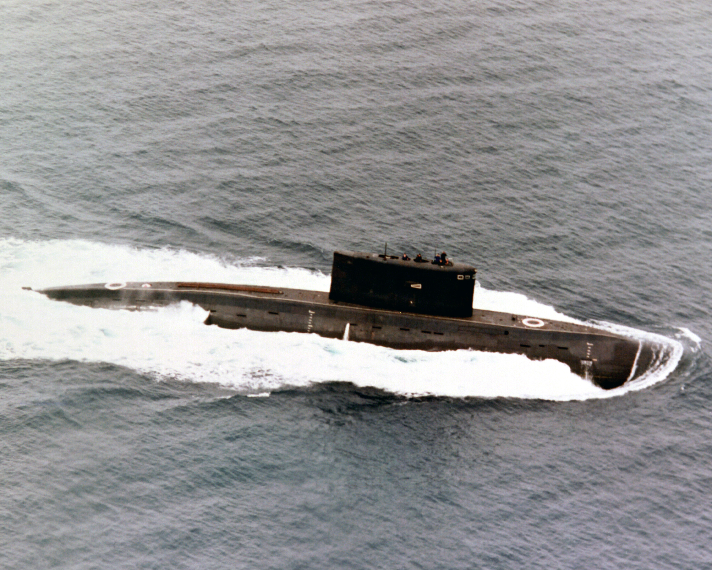 A starboard beam view of a Soviet Kilo class patrol submarine underway.